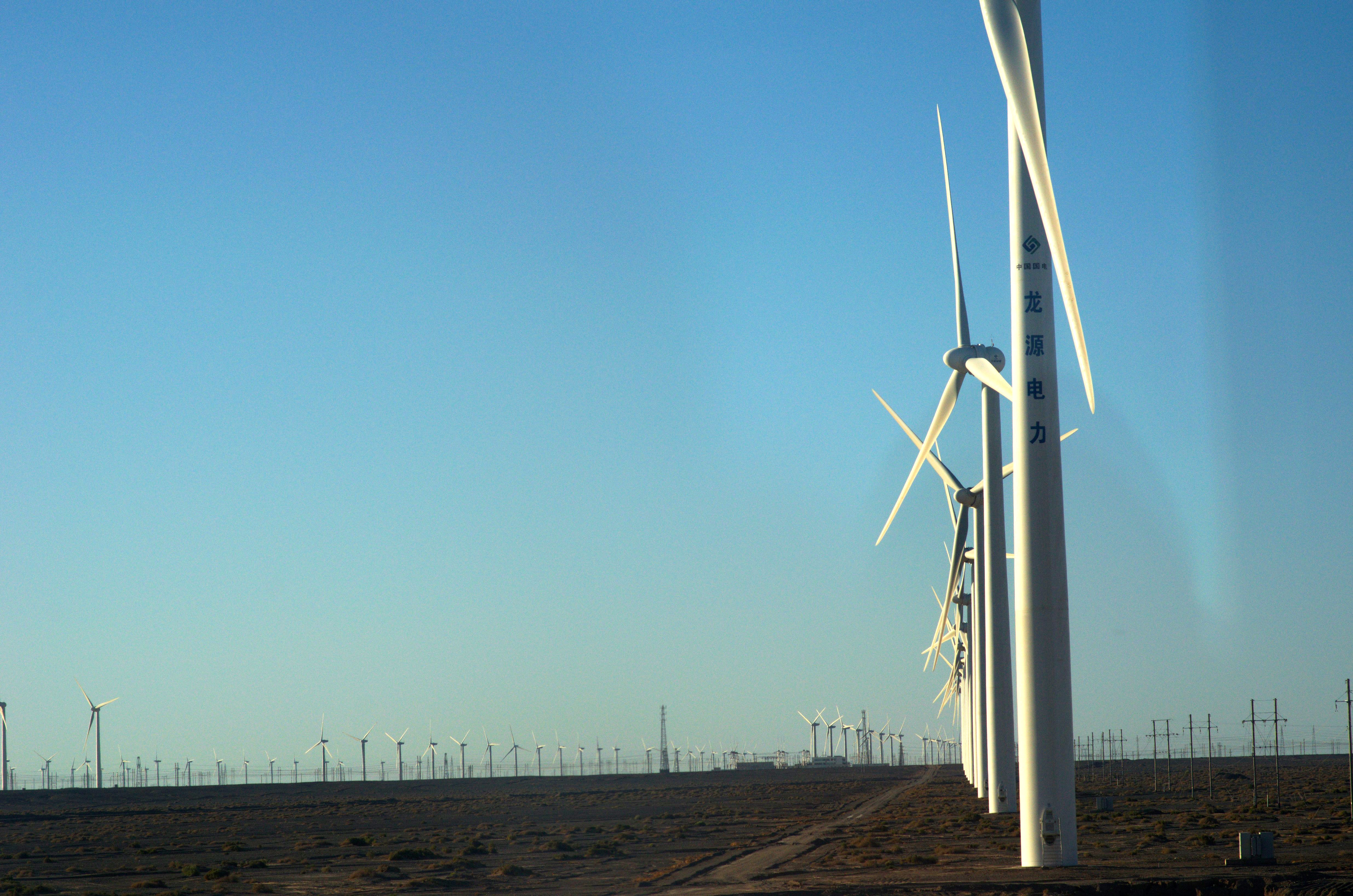 Some hundreds wind turbines in Guazhou County, Gansu province, China.